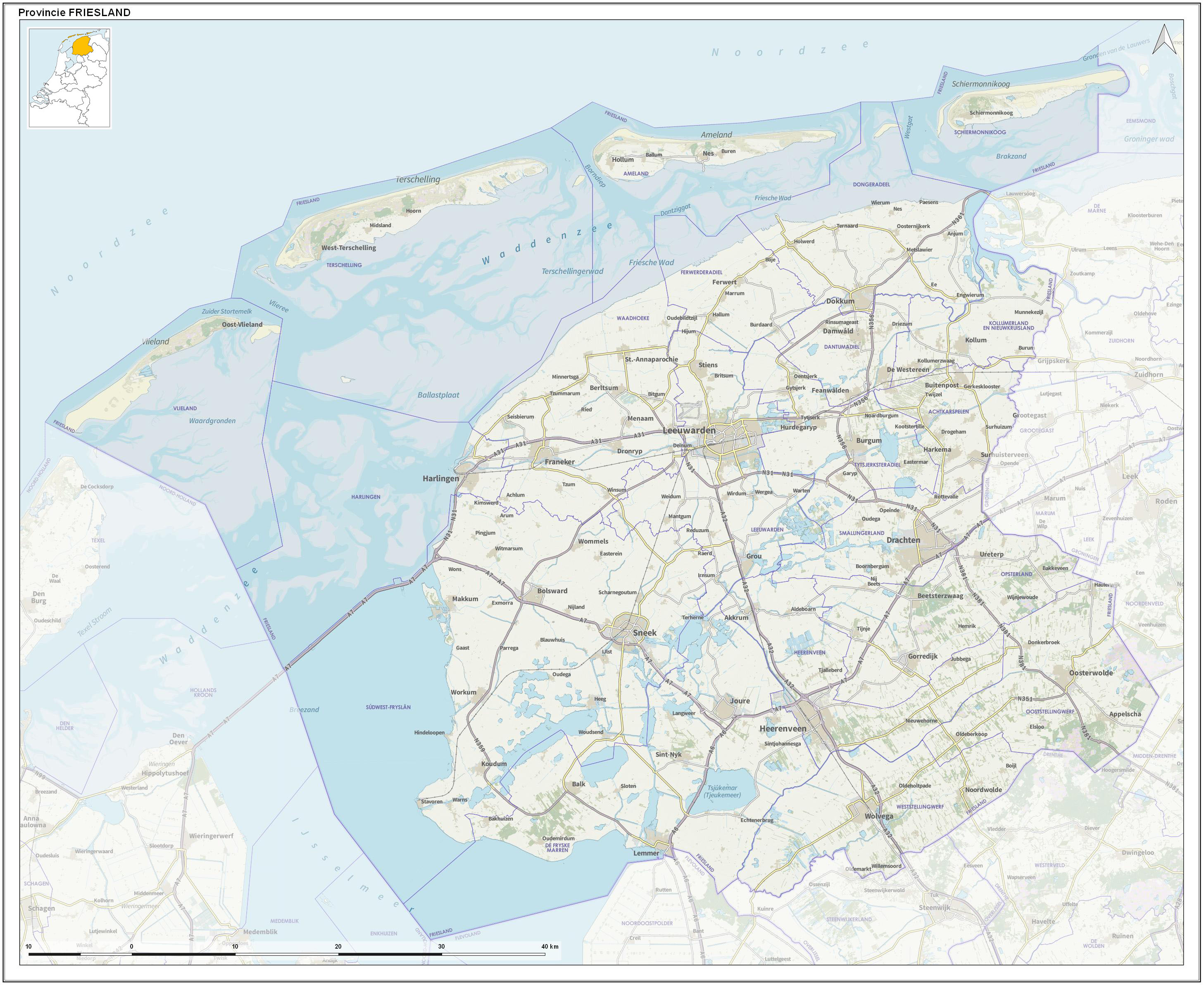 Toographic overview map of the Dutch Province of Friesland as of 2018. Compiled by Jan-Willem van Aalst using Dutch Governmental open data (CC-BY Kadaster) and OpenStreetMap data (CC-BY OpenStreetMap contributors).